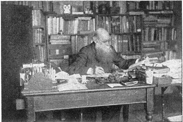 Piotr Kropotkin at his desk.